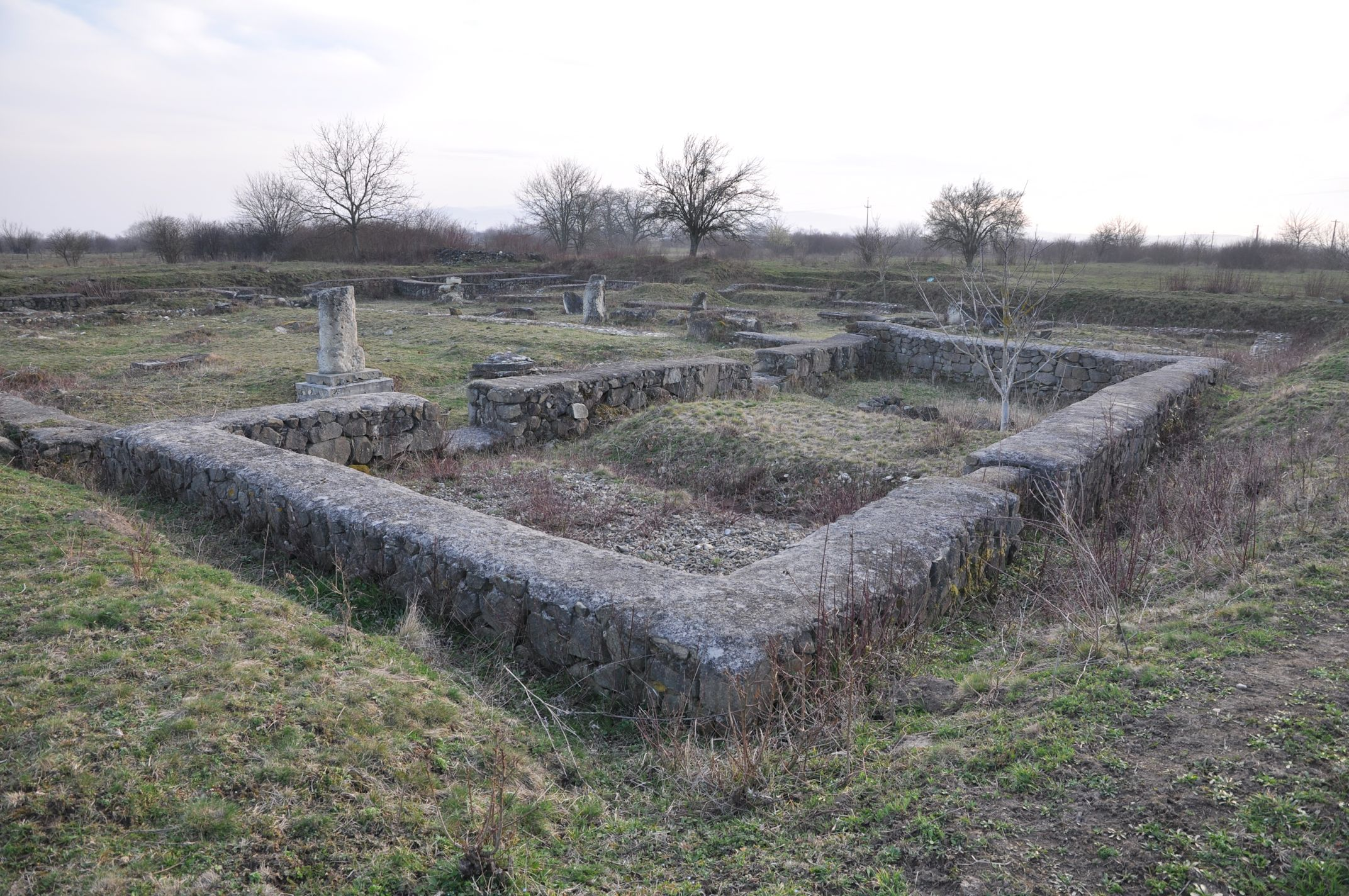 Roman fort Tibiscum - present day Jupa, Romania.